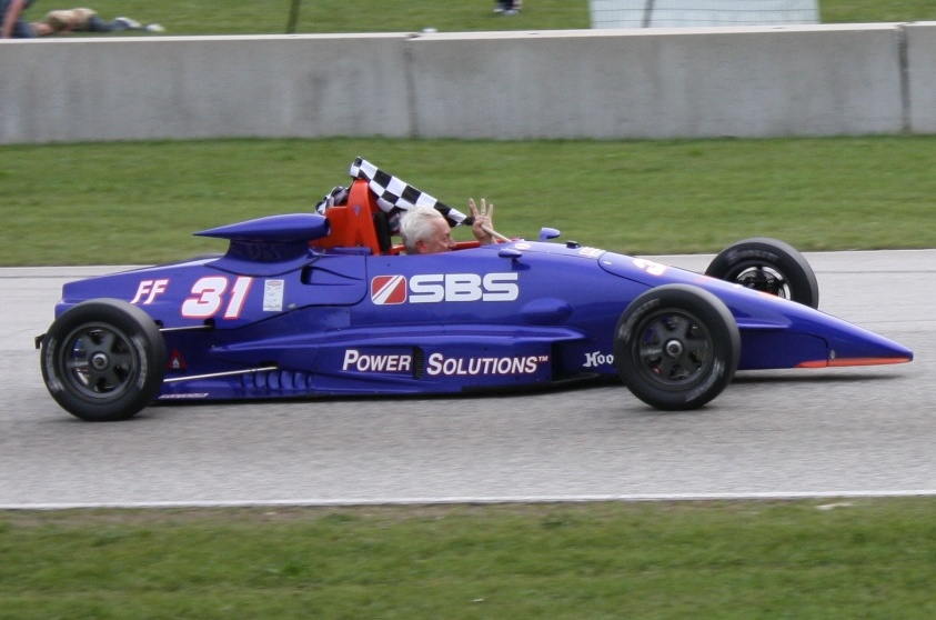 The FF (Formula Ford) class #31 celebrating his win at the 2009 Sports Car Club of American National Runoffs.